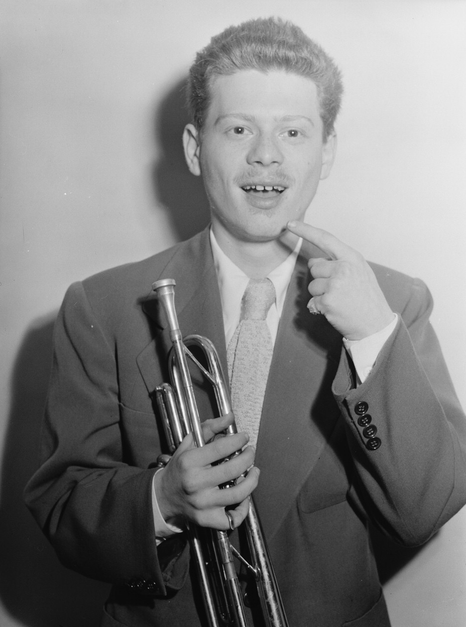 Red Rodney, ca. June 1946 (Photograph by William P. Gottlieb)